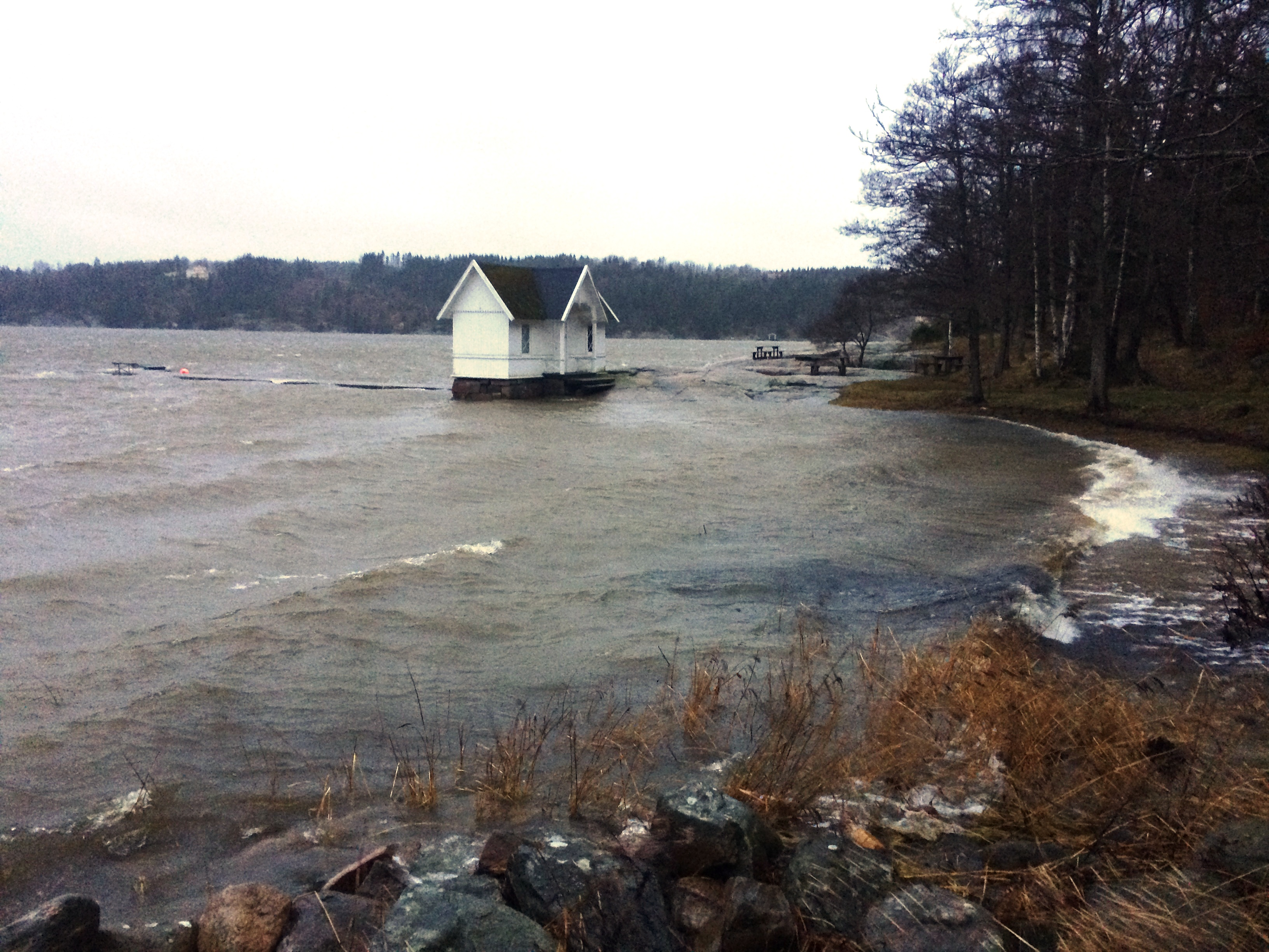 Image of the storm "Synne" (Norway) or "Helga" (Sweden), which was sweeping past Southern Norway, and reaching the west coast of Sweden - all on December 5, 2015. This image from the Gullmarn Fjord shows sea waters 50-70 cm above the normal, an Heavy Winds even in the inner parts of the fjord. Munkedal municipality, Sweden.